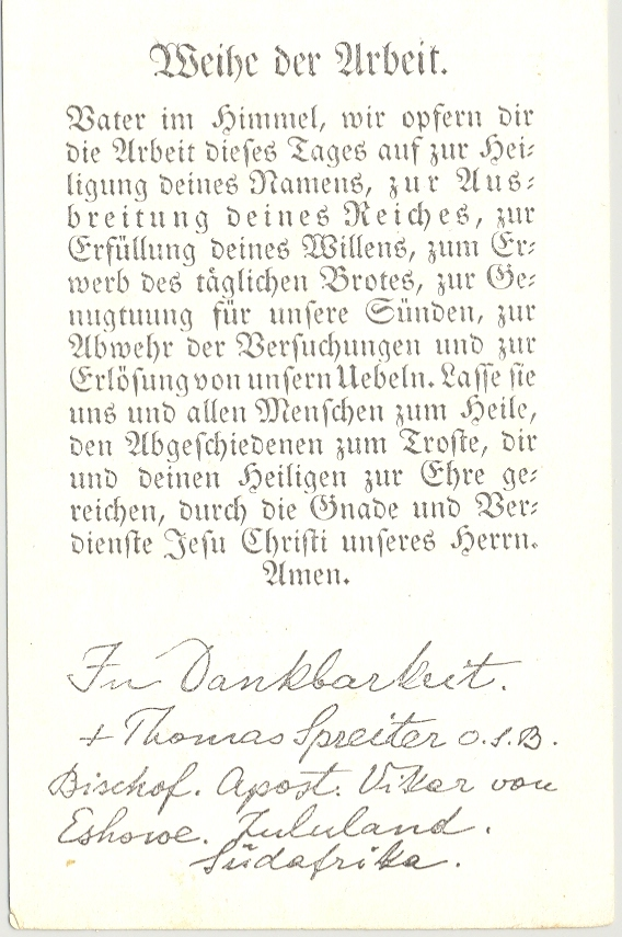 Back of prayer card, containing brief prayer in praise of labor. Card is signed by Thomas Spreiter, OSB, Apostolic Vicar of Dar-Es-Salaam, 1906-1920 (hence the dating).